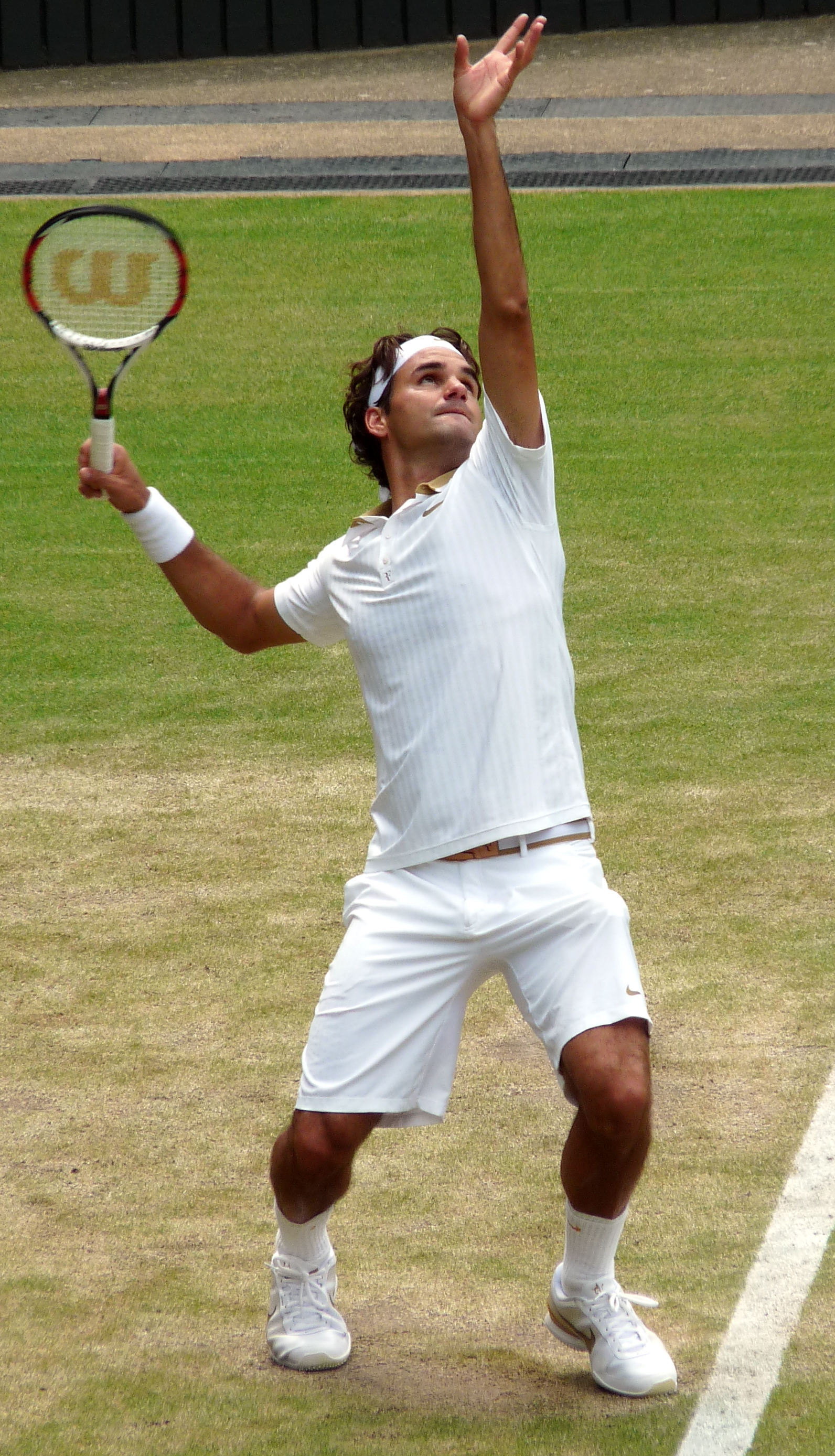 I'm quite chuffed with how the camera coped, considering we were quite far back and I was lacking in tripod!